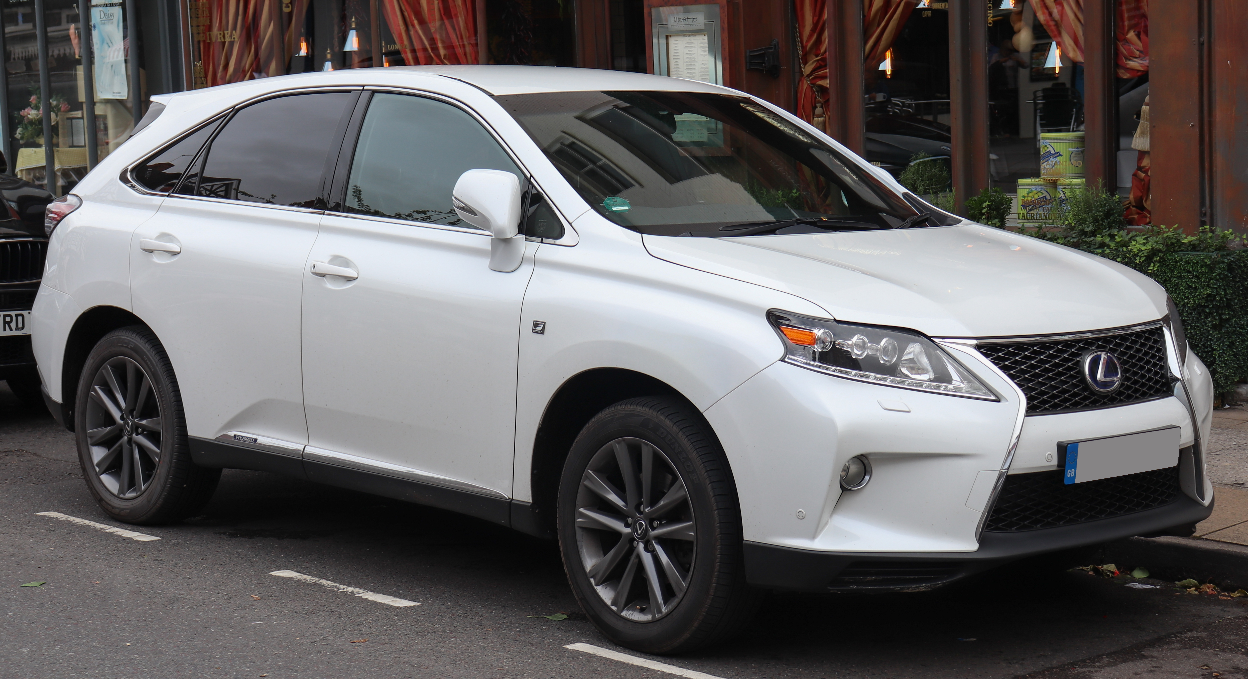 2013 Lexus RX 450h F Sport CVT 3.5 Front Taken in Warwick